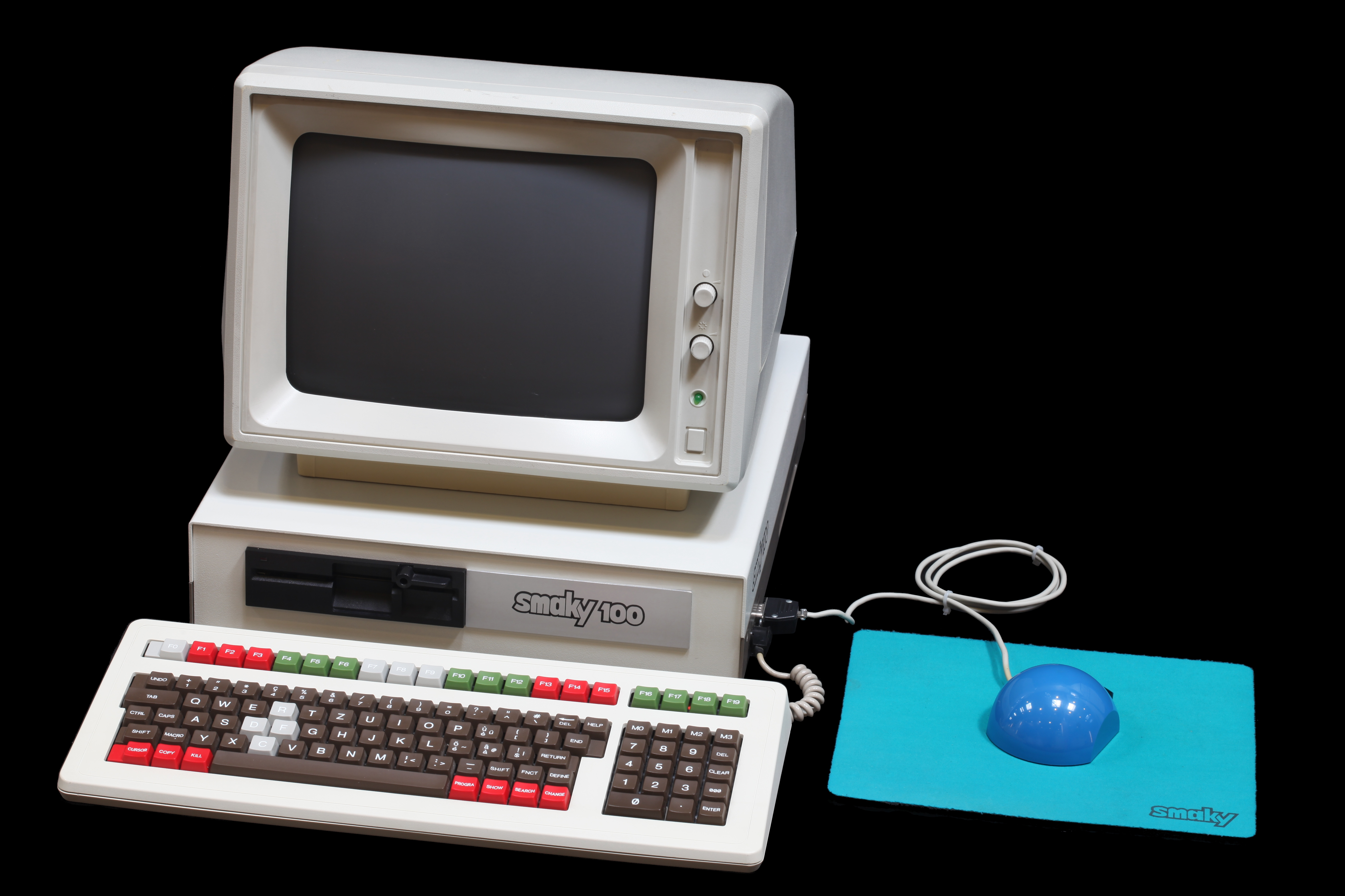 Smaky-100 computer. On display at the Musée Bolo, EPFL, Lausanne.